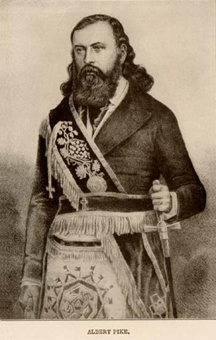 Albert Pike